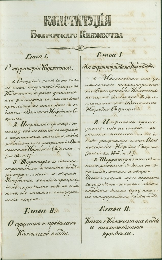 Tarnovo Constitution, Bulgaria